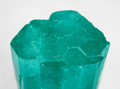 Beryl Locality: Muzo Mine, Muzo, Vasquez-Yacopí Mining District, Boyacá Department, Colombia (Locality at ) Size: miniature, 5 x 3 x 2.5 cm Emerald MORE GEMMY in person, please note! This large crystal weighs in at over 300 carats and is complete all around, terminated and with GLASSY lustre on ALL faces. The color is intense! VERY FEW Colombian emeralds reach sizes of this magnitude, and of those a vanishingly small percentage survive "geology" itself in the form of crystals we would want as collectors after millions of years in the ground. Then, they have to survive mining, extraction, and those ruthless jewelers and faceters who break up lovely crystals for a sliver of rough inside. Can you imagine the value on the lapidary market, particularly in Asia and in the auction houses, of a huge emerald bird or buddha carved from this thing?! I have seen lapidary carvings from previous gem crystals sell for fortunes, more than we would ever pay as a specimen. Thankfully, this crystal has a kinder fate. This is a phenomenal crystal that is obviously somethng significant...and fine, as well. There IS a difference, and the line is not fuzzy at all with this specimen. I bought and SOLD THIS IN MID-2006 and just obtained it back recently, still feeling it is one of the biggest and most impressive such crystals I can obtain today as well. (65 grams or approx. 325 carats)